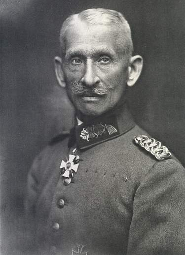 Wilhelm Engelhard von Nathusius d.J., Foto s/w, Uniform